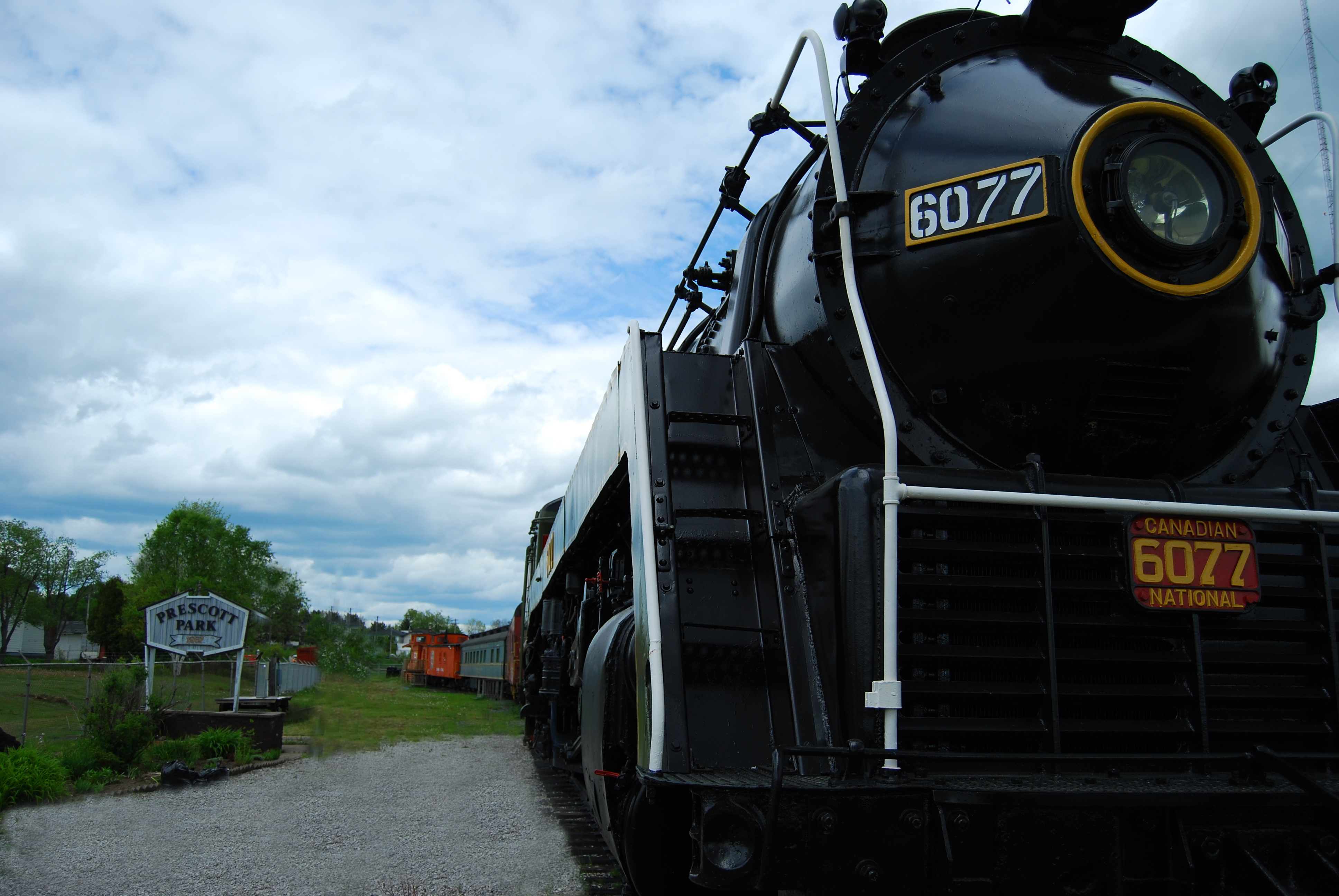 modified picture of 6077